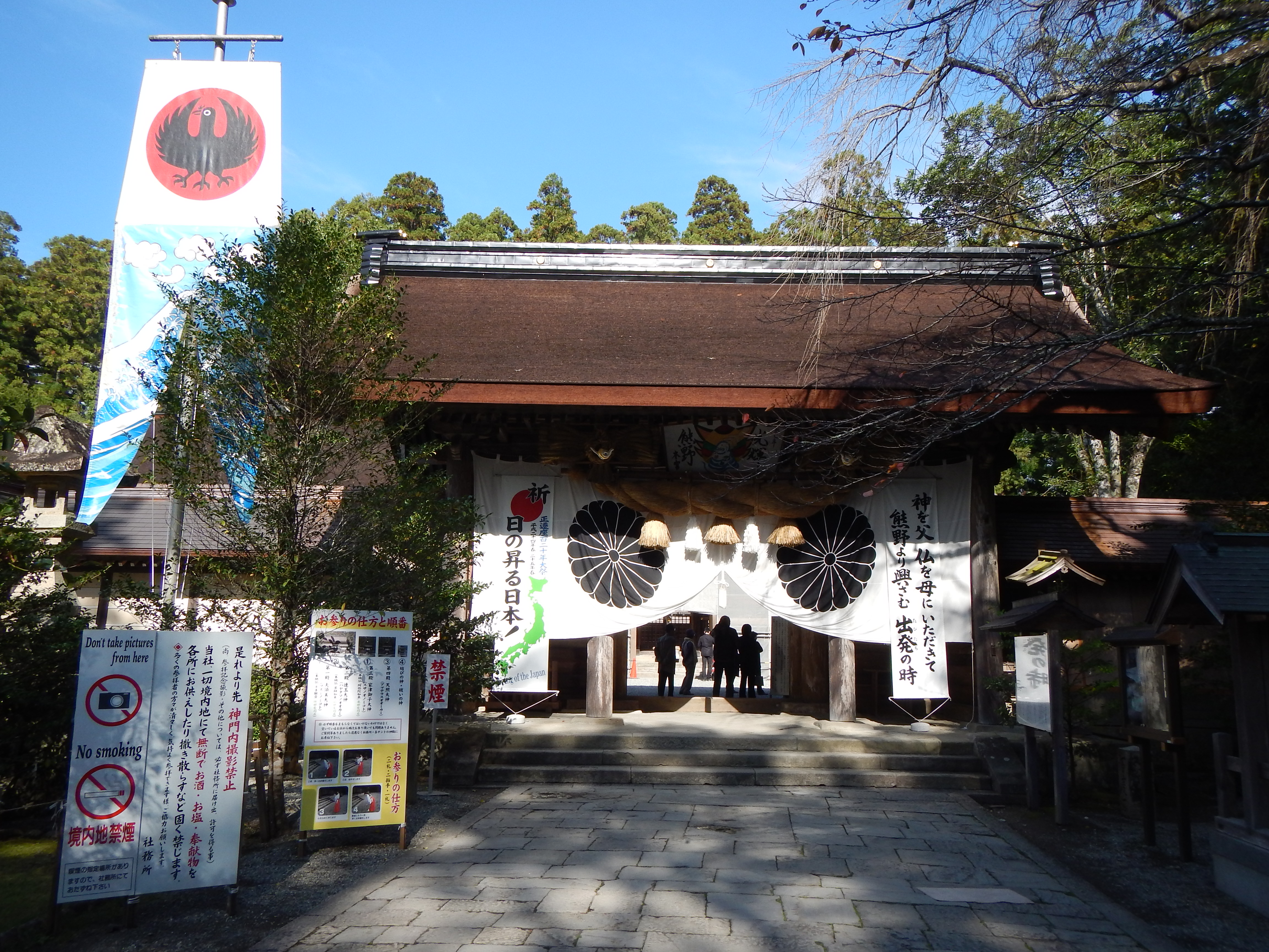 Kumano Kodo Kumano Hongu Taisha World heritage 熊野本宮大社